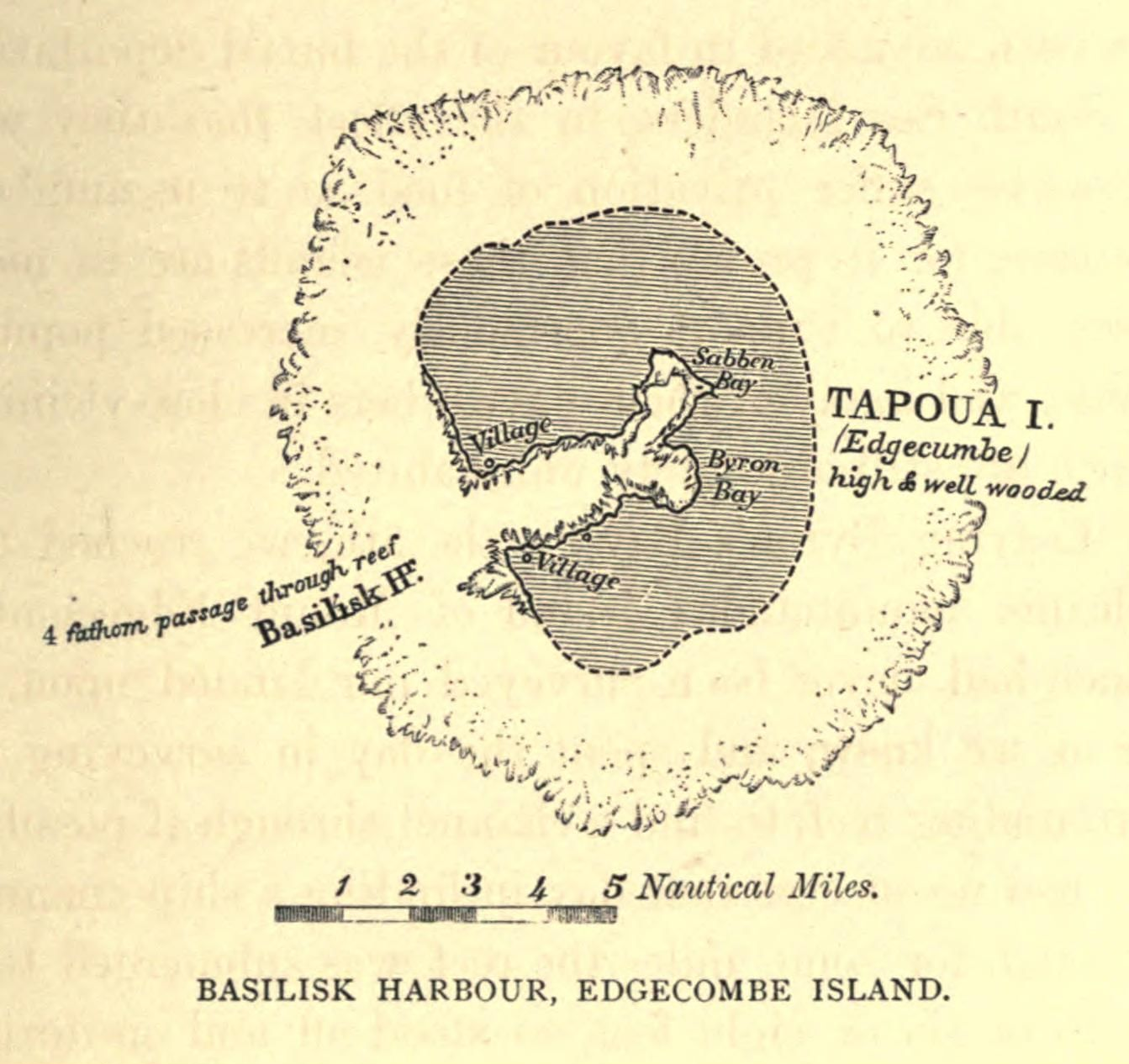 possibly first map of Utupua Island, Solomon Islands, Pacific Ocean